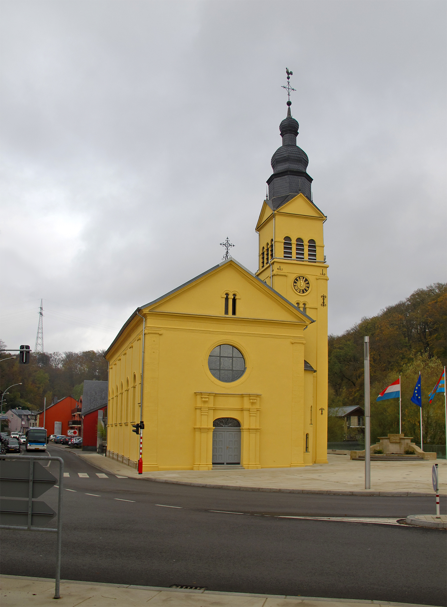 Church of Hesperange, Luxembourg